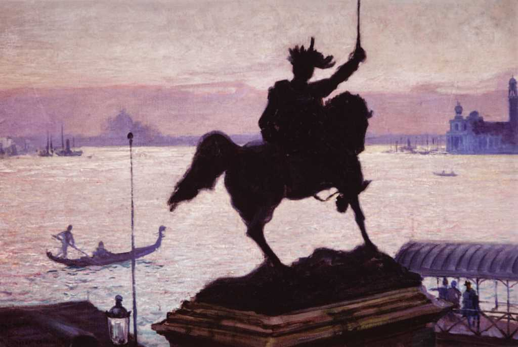 View of Venice